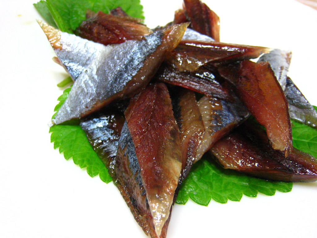 Gwamegi (과메기), Korean half-dried pacific herring or pacific saury made during winter.